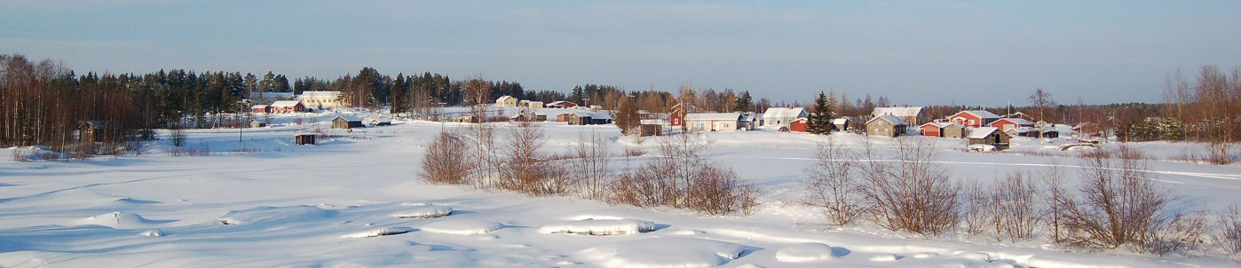 Kiiminkijoki river frozen over, village of Alavuotto in Ylikiiminki municipality, Finland.